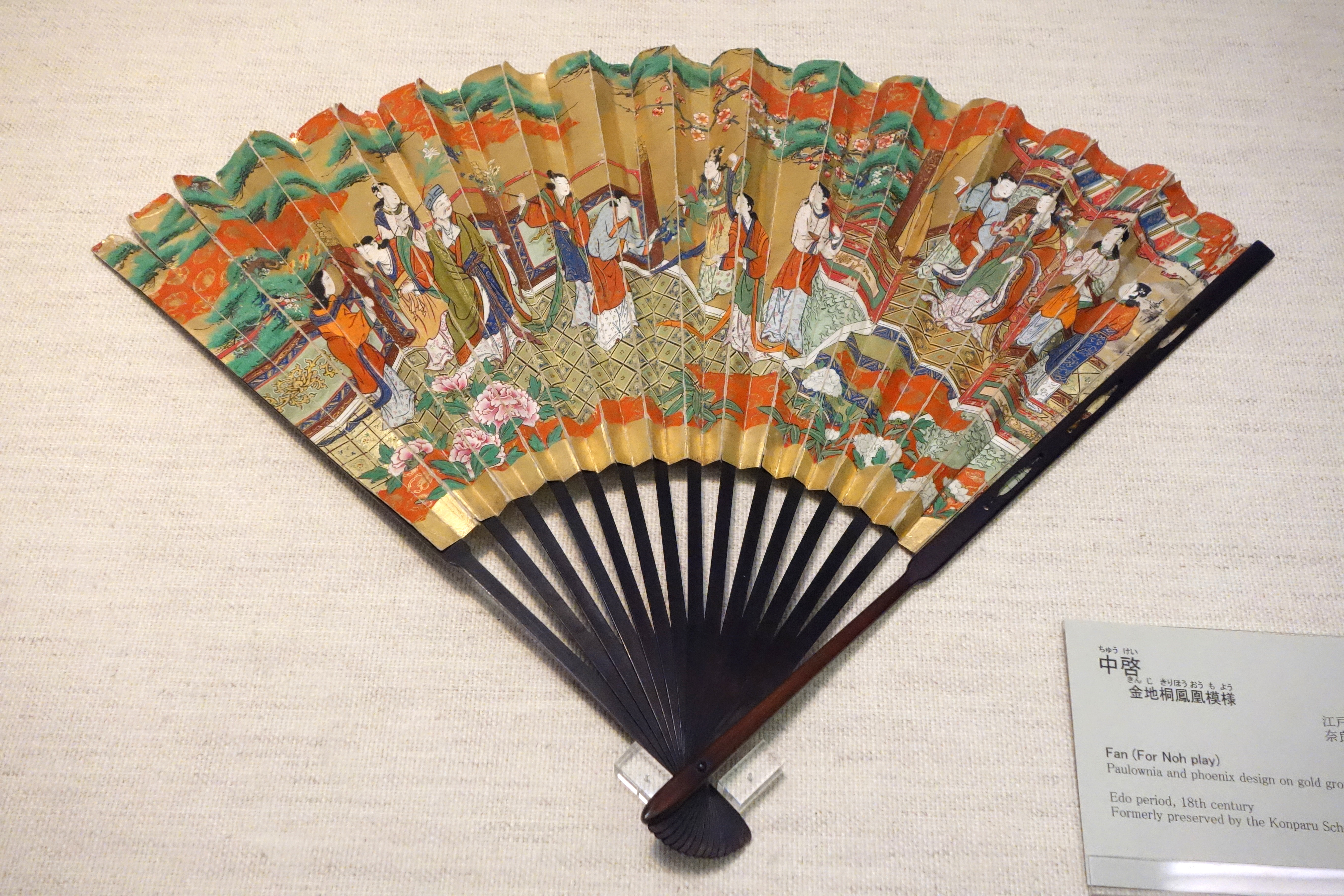 Exhibit in the Tokyo National Museum, Tokyo, Japan. This artwork is old enough so that it is in the public domain.